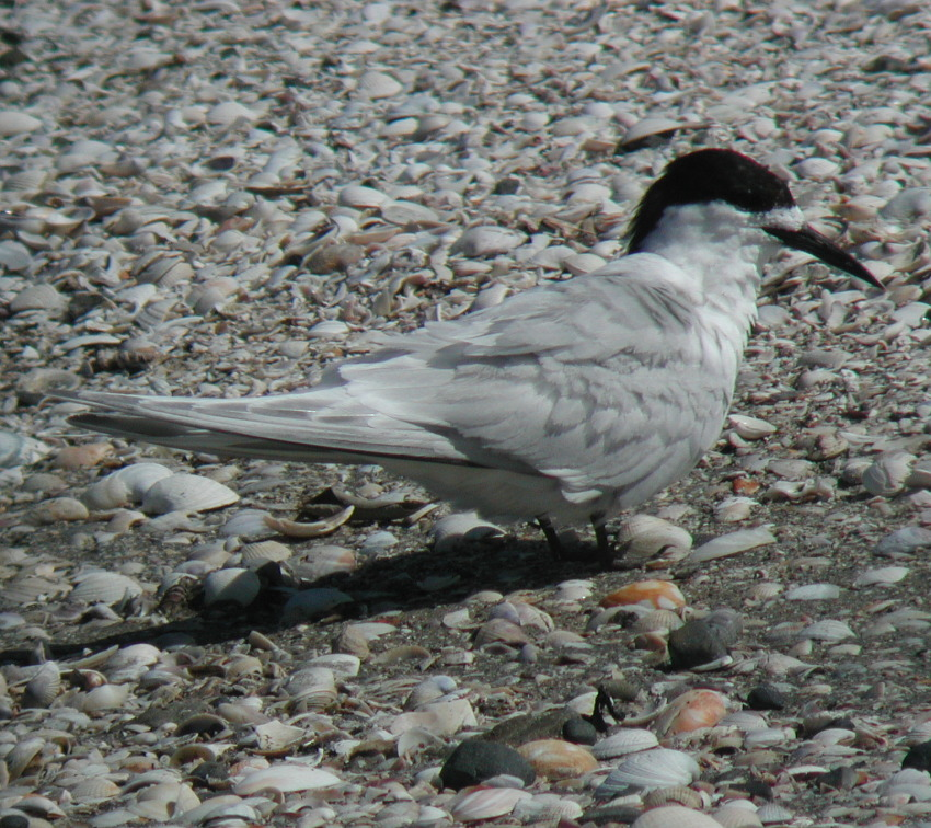 White-fronted Tern (Sterna striata) Miranda, New Zealand